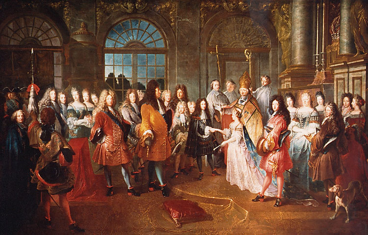 Marriage of Louis of France, Duke of Burgundy to Princess Maria Adelaide of Savoy at Versailles on December 1697; present are the King, Dauphin, the Dukes of Anjou, Berry Orléans and Chartres.